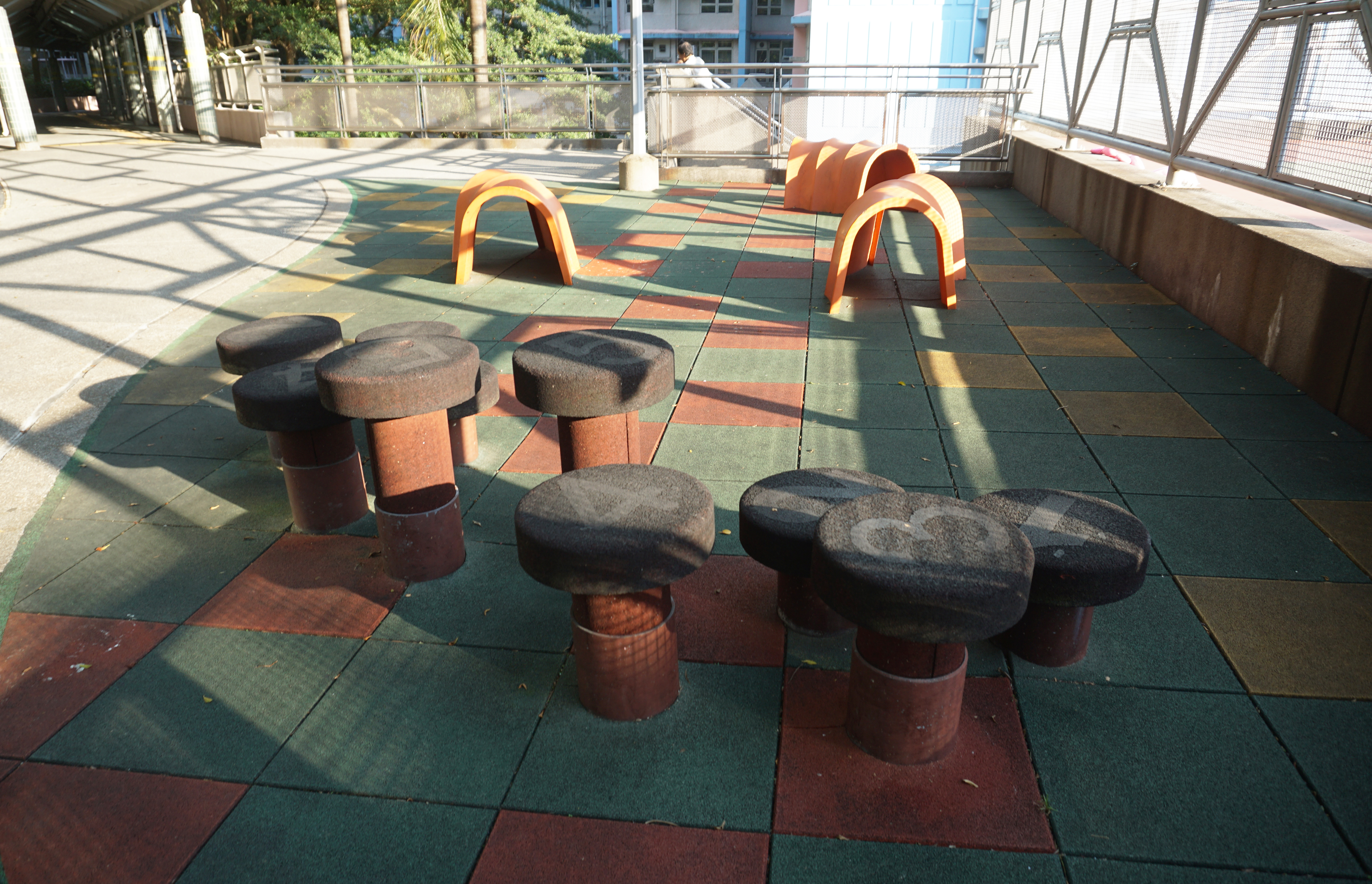 Tsz Lok Estate in Tsz Wan Shan, Hong Kong.